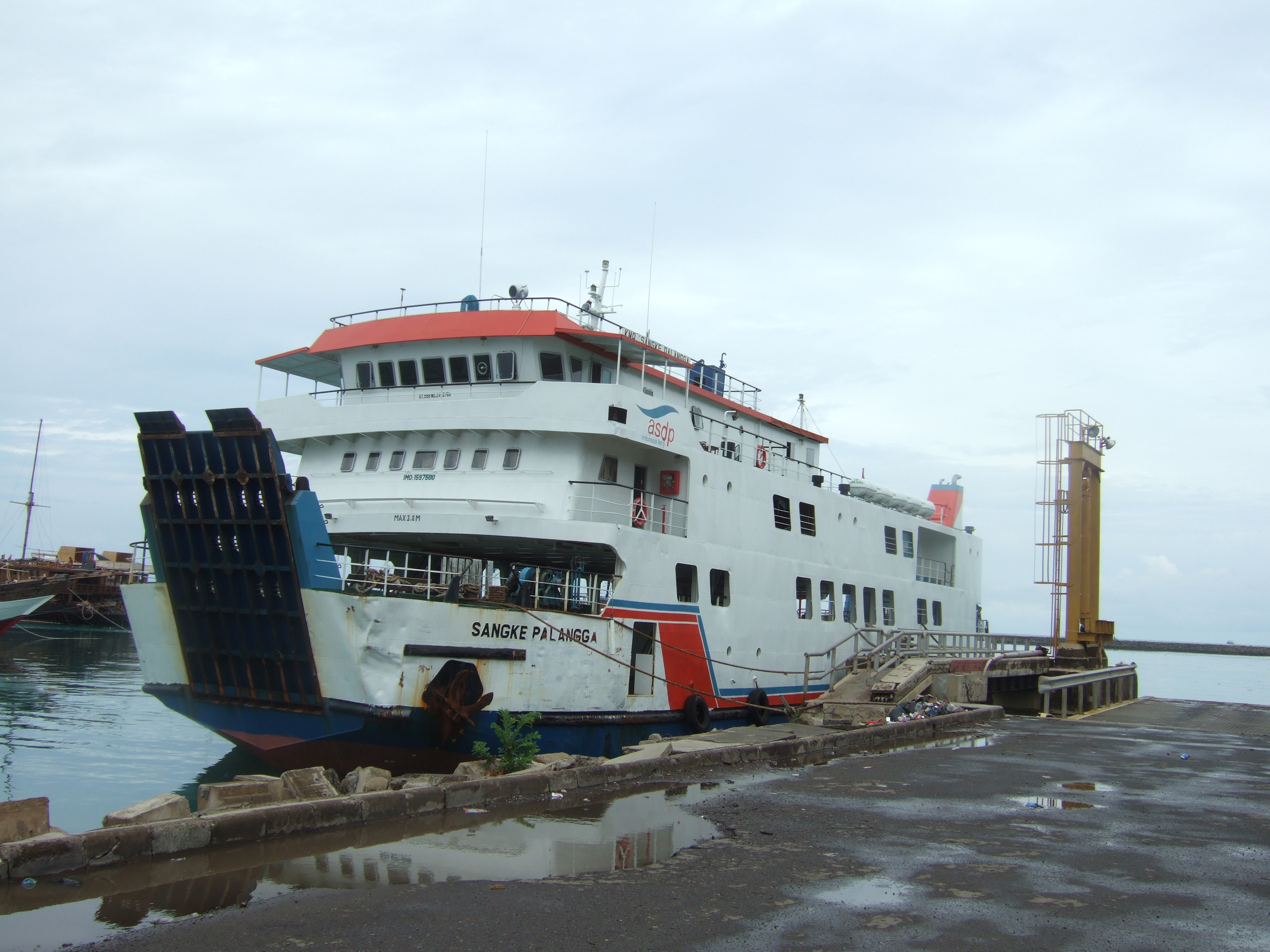 KM Sangke Palangga, Port of Bira Bulukumba, South Sulawesi